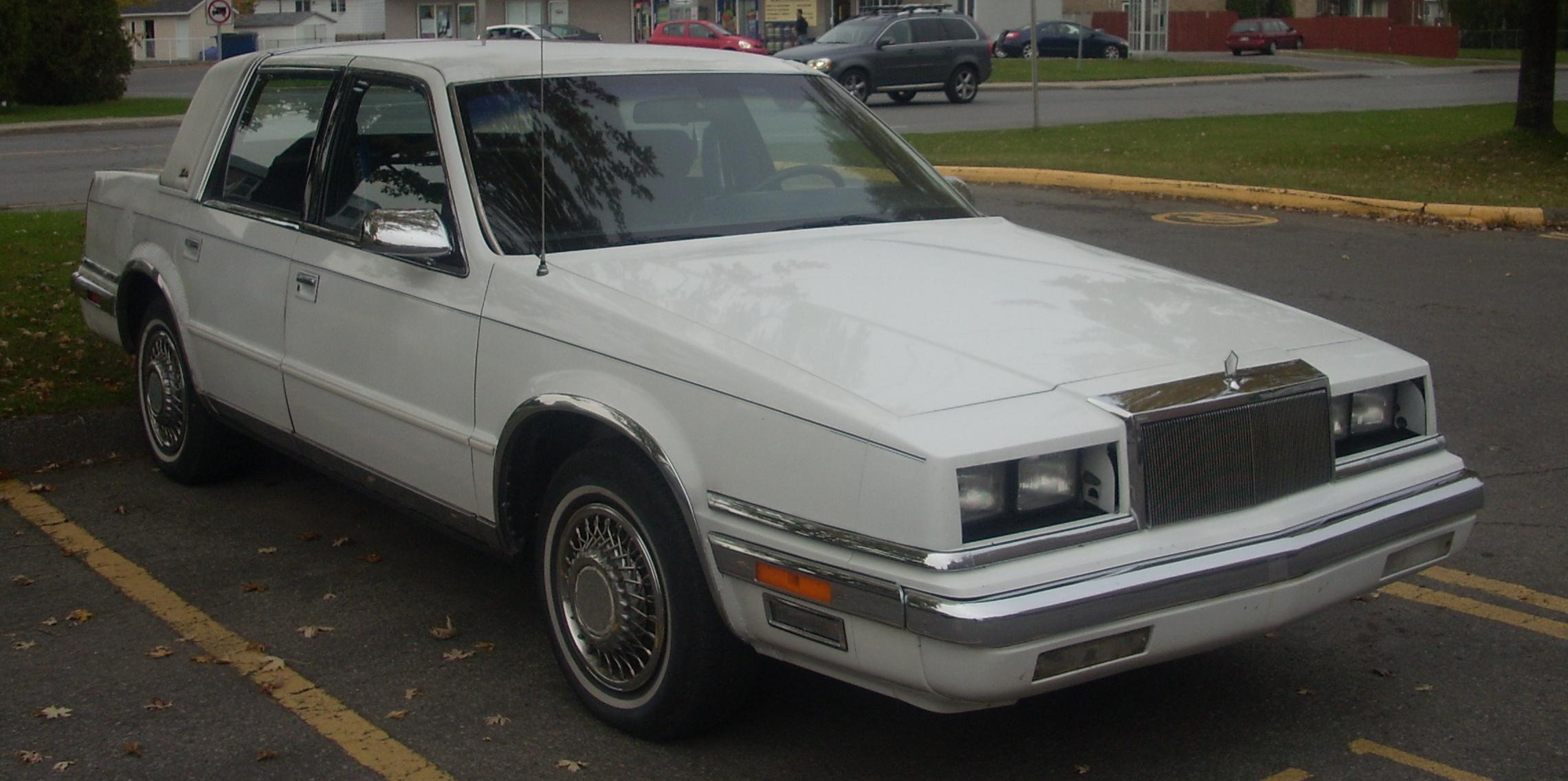 1988-1991 Chrysler New Yorker photographed in Vaudreuil-Dorion, Quebec, Canada.